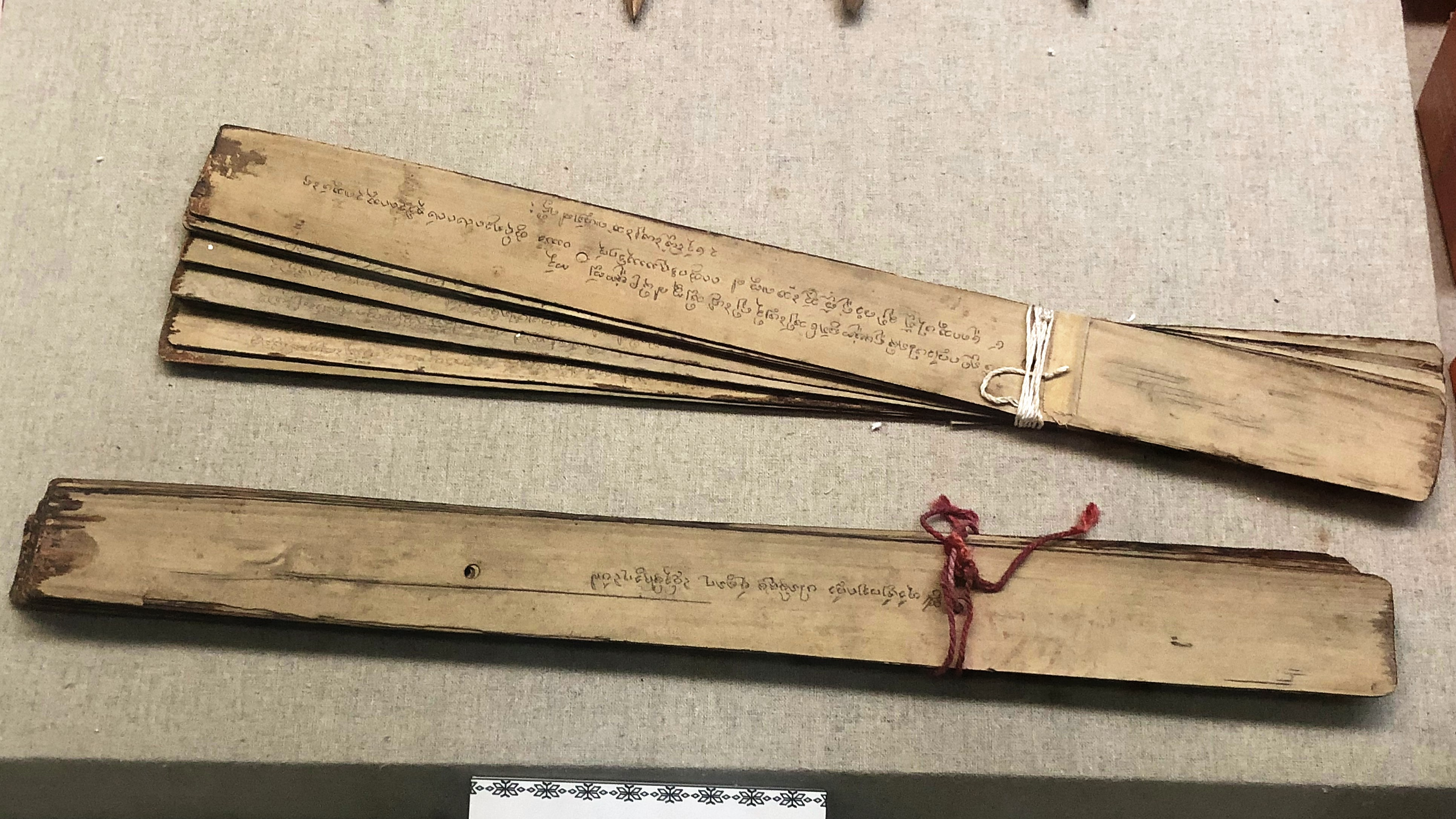 Pattra